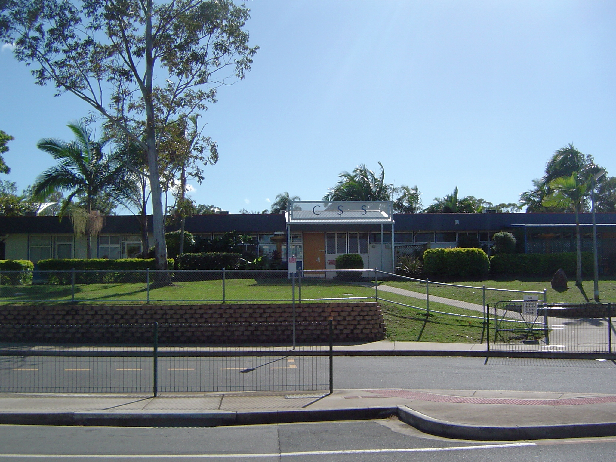 Photo of Crestmead State School, Crestmead, City of Logan, Queensland, Australia.